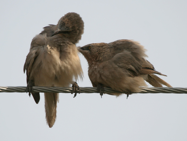 Large Grey Babbler Turdoides malcolmi in Parli, Maharashtra, India.